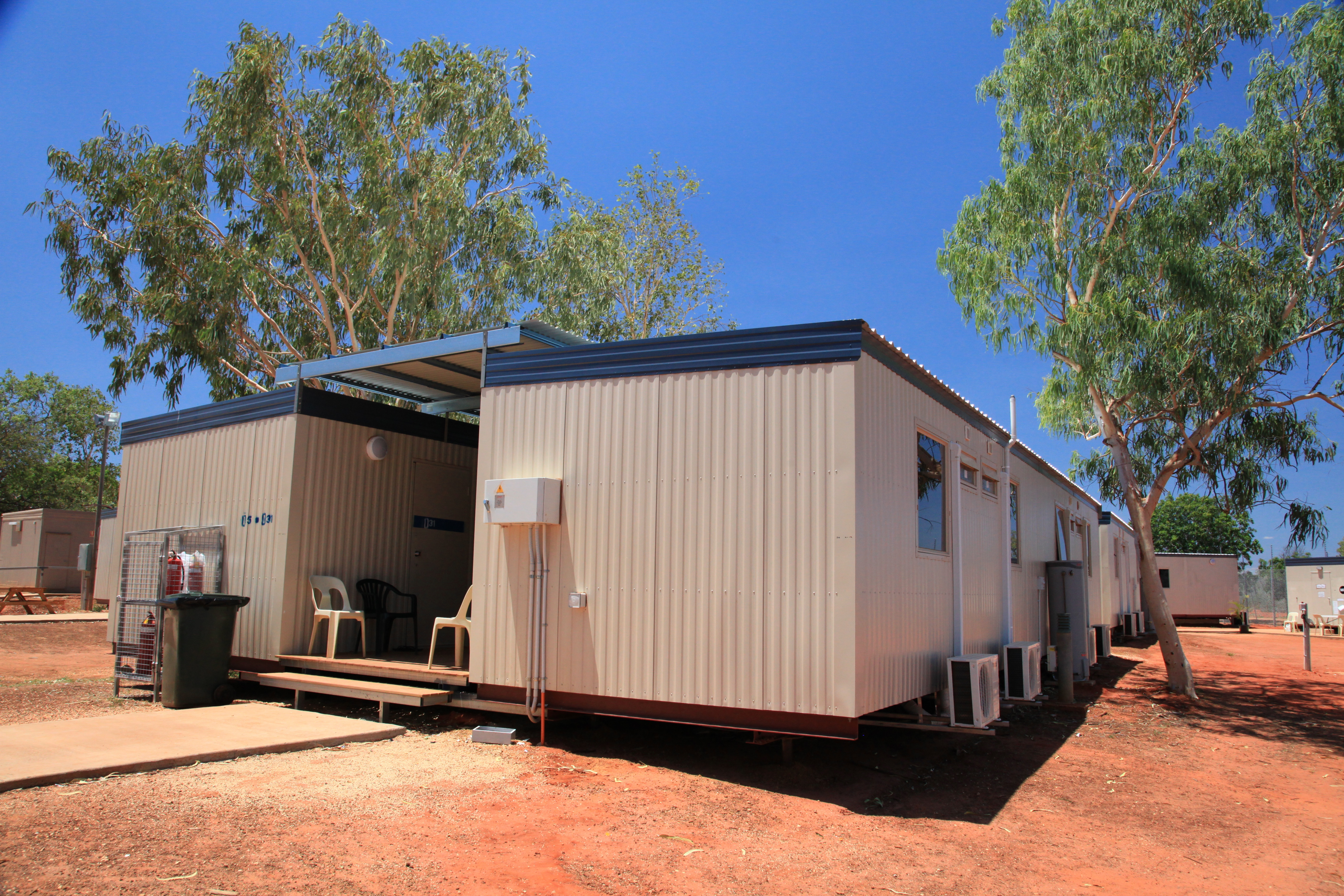 Curtin IDC 4